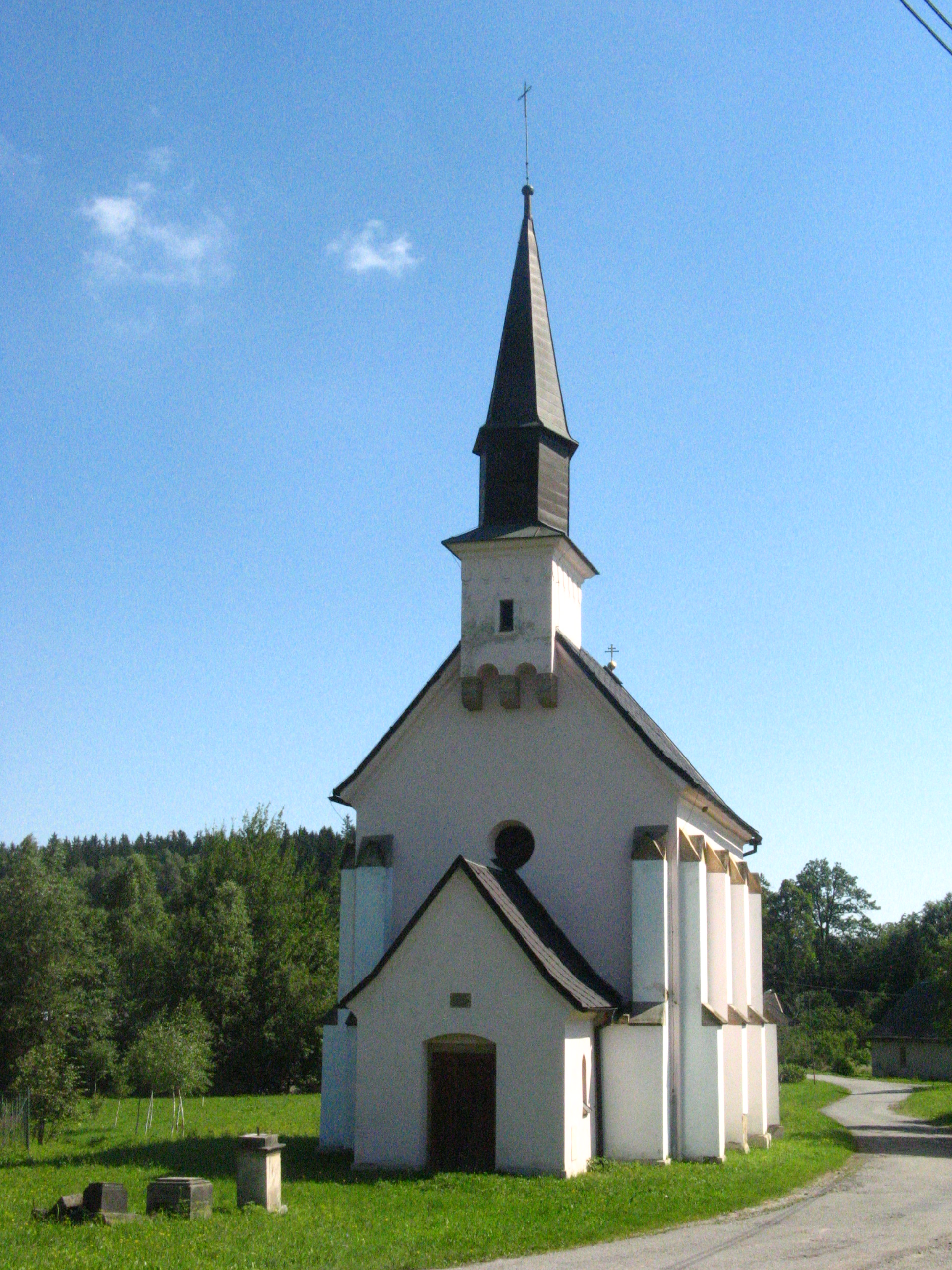 Saint Joseph chapel, Hřebeč part of the Koclířov village, district Svitavy - Czech Republic